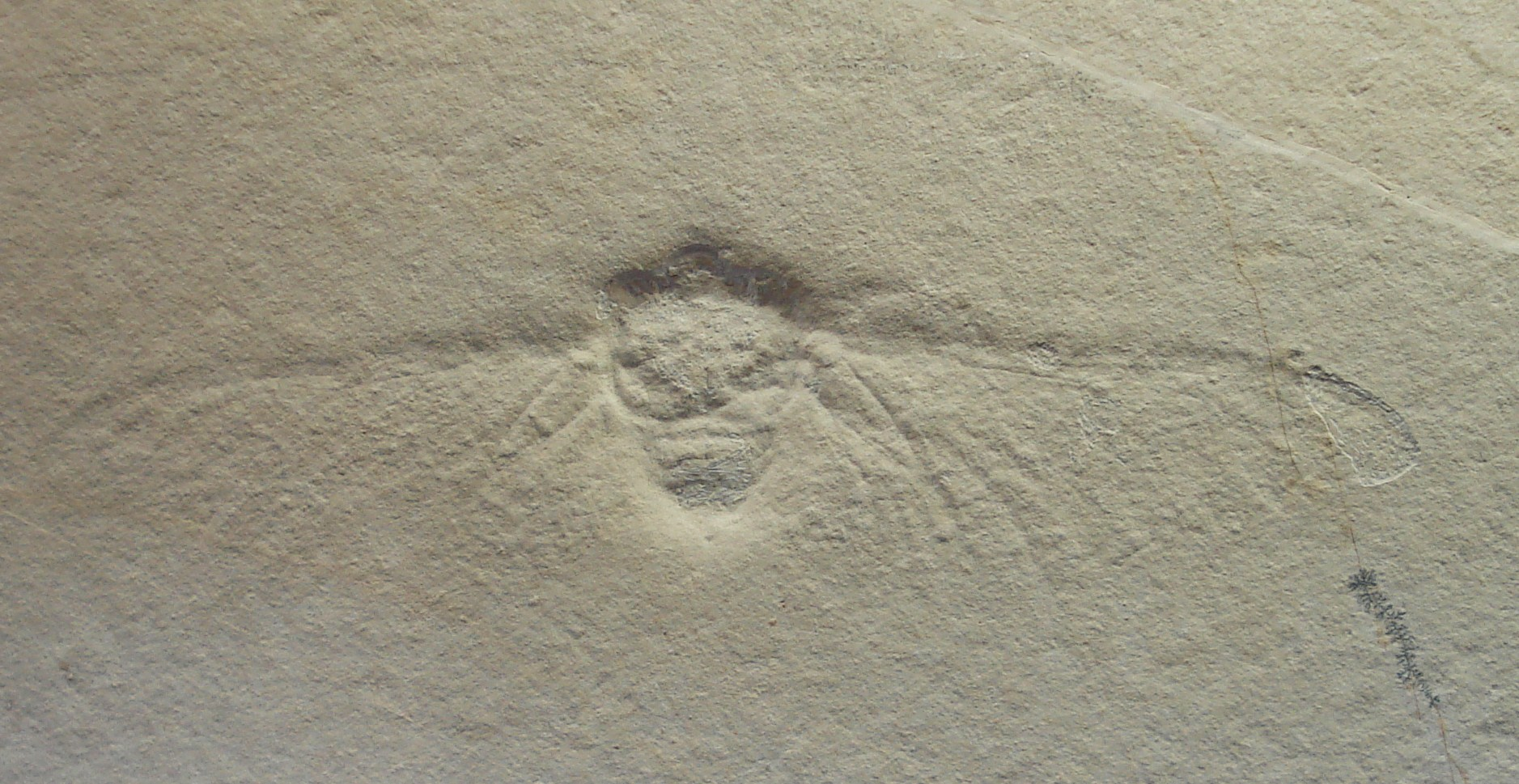 Fossil of Prolystra lithographica (jr synonym Protopsyche braucri). Jurassic, c. 150-145 mya.